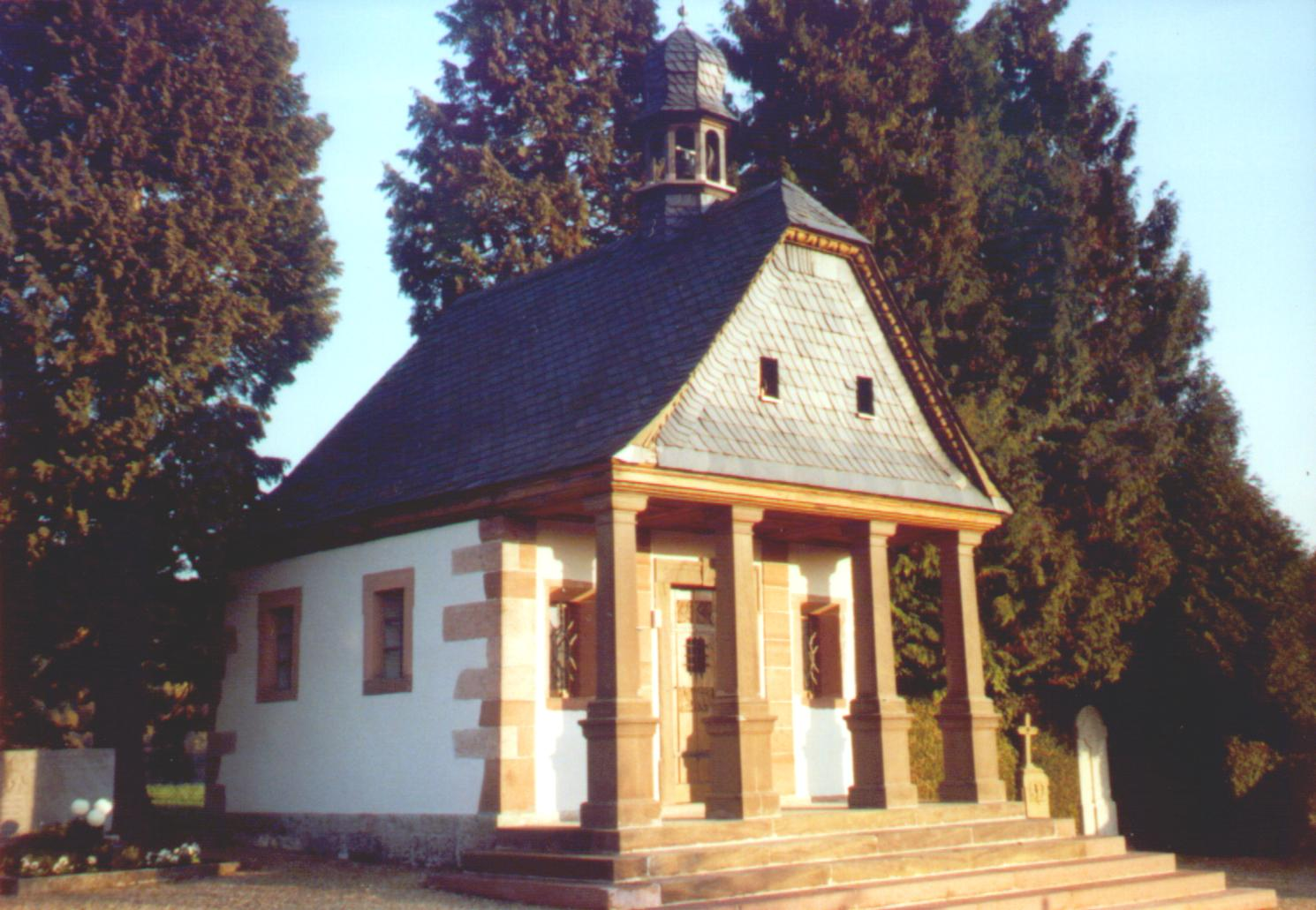 Mortuary of the cemetery in Aschach, a quarter of the German spa town of Bad Bocklet in Lower Franconia (Bavaria).